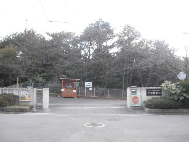 The Hyogo Tatsumi spirit of a tree love garden front gate